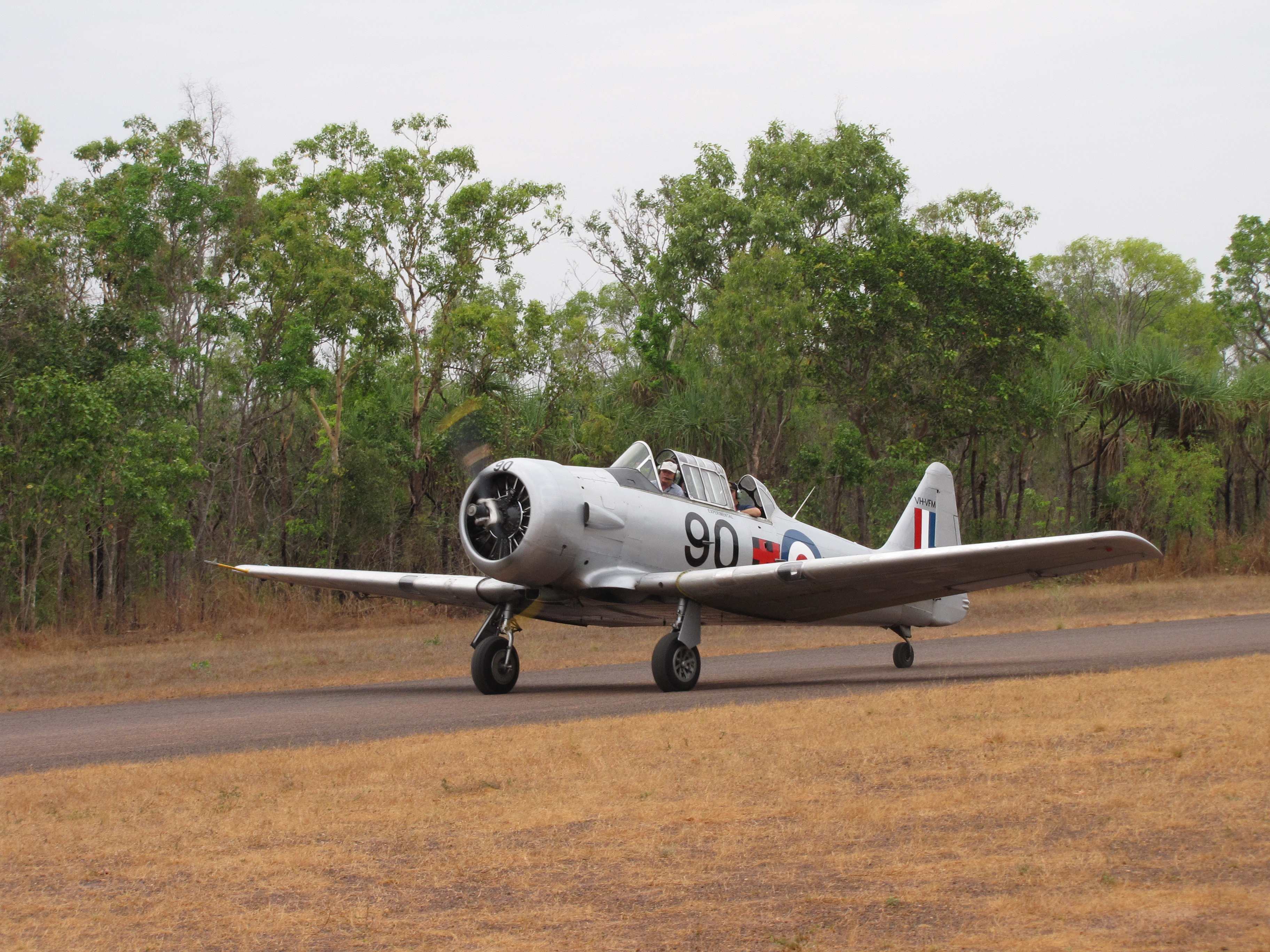 North American AT-6D Harvard III Taxiing at MKT October 2011.